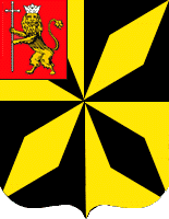 Unofficial emblem of the city of Gavrilov Posad